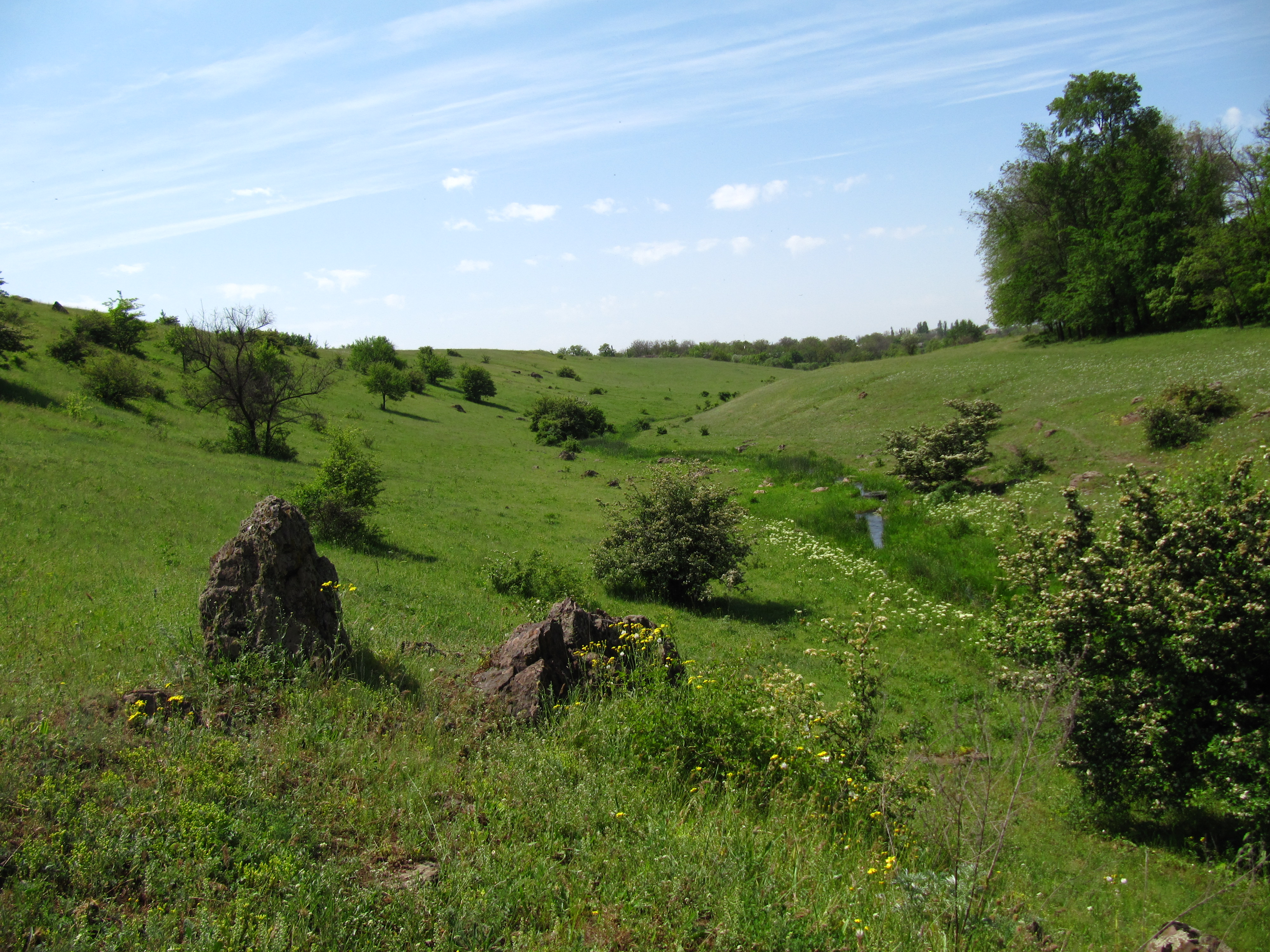 "Chervona balka pivnichna" ukrainian state sanctuary in Kryvyi Rih